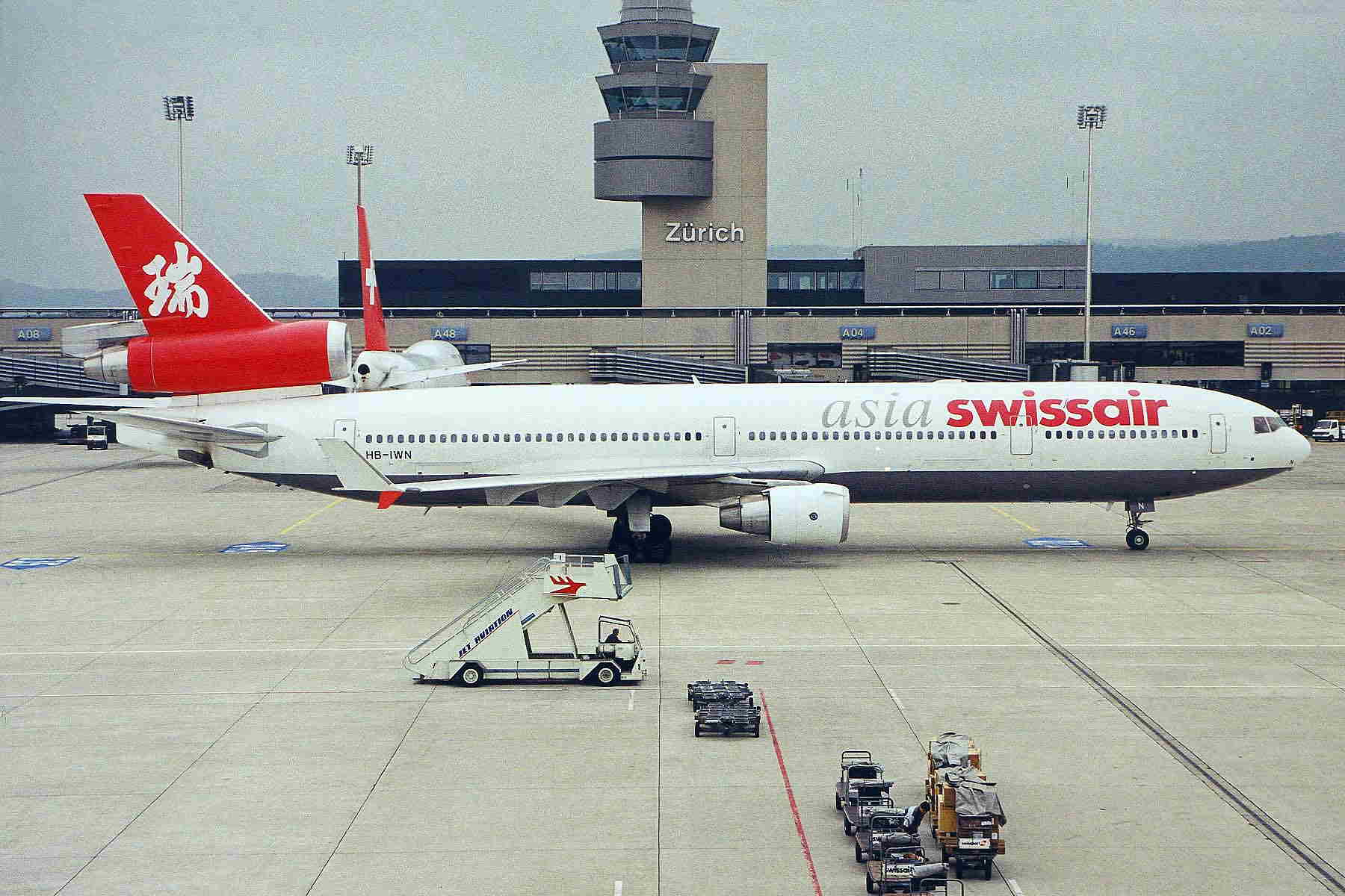 'Swissair Asia' titles & tail logo